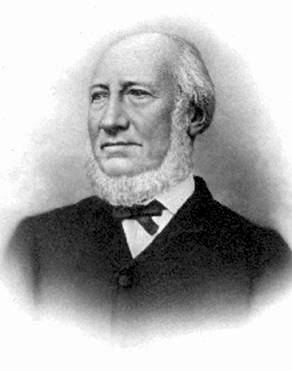 Photograph of David Cameron (1804-1872), the first Chief Justice of the Supreme Court of the Colony of Vancouver Island.